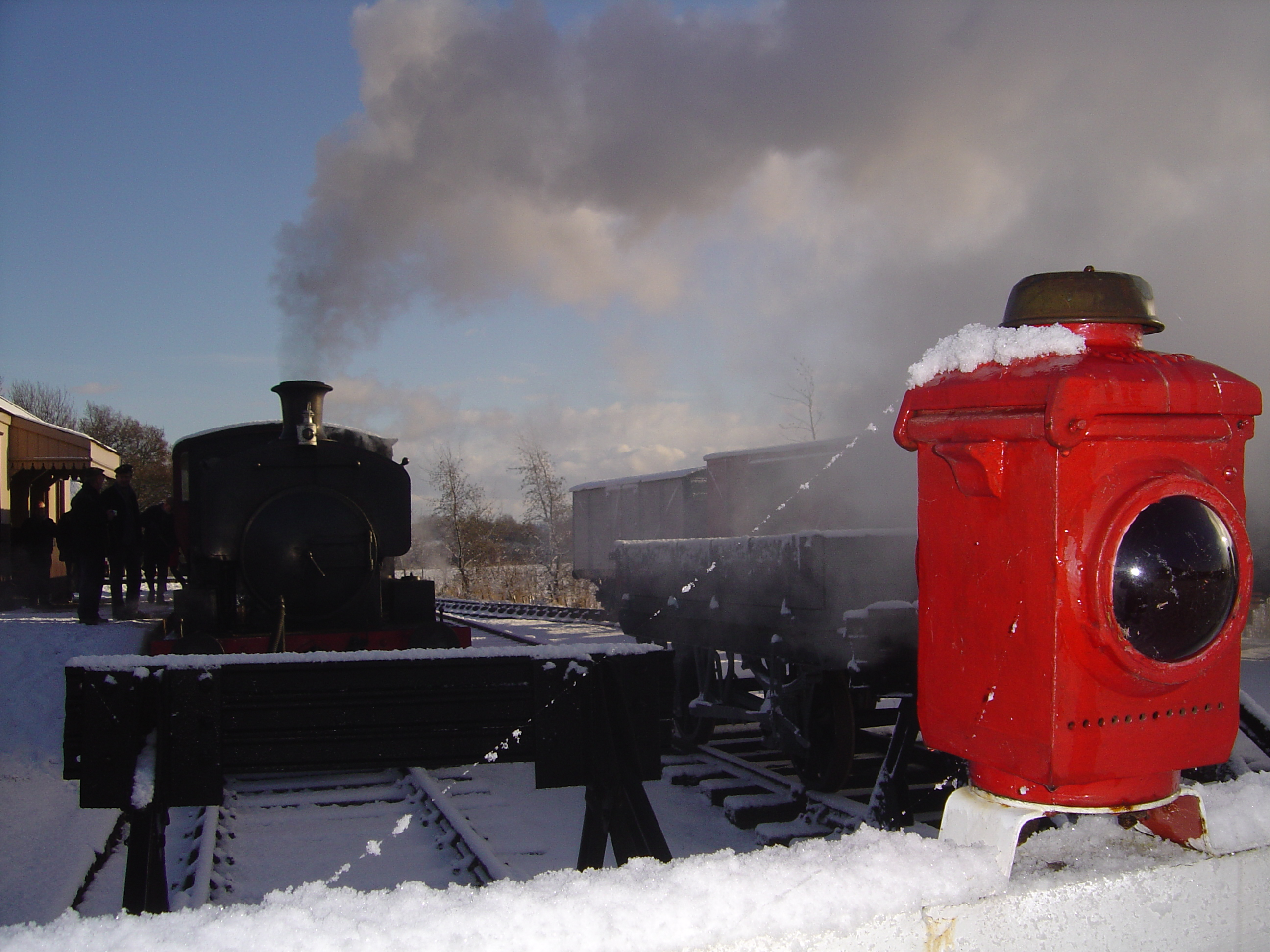 Taken by Nick Fowler on the 27/12/05.